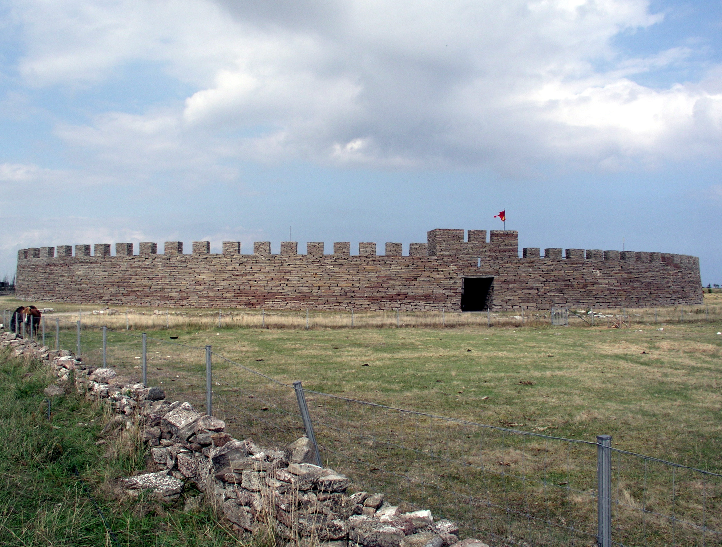 Eketorp fornby / Eketorp ancient village. Island of Öland, Sweden.